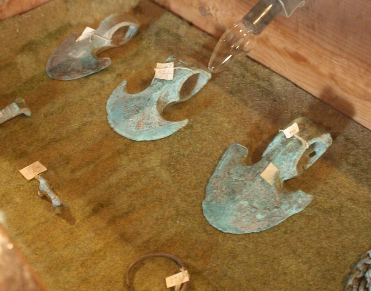 Gremi museum, Georgia